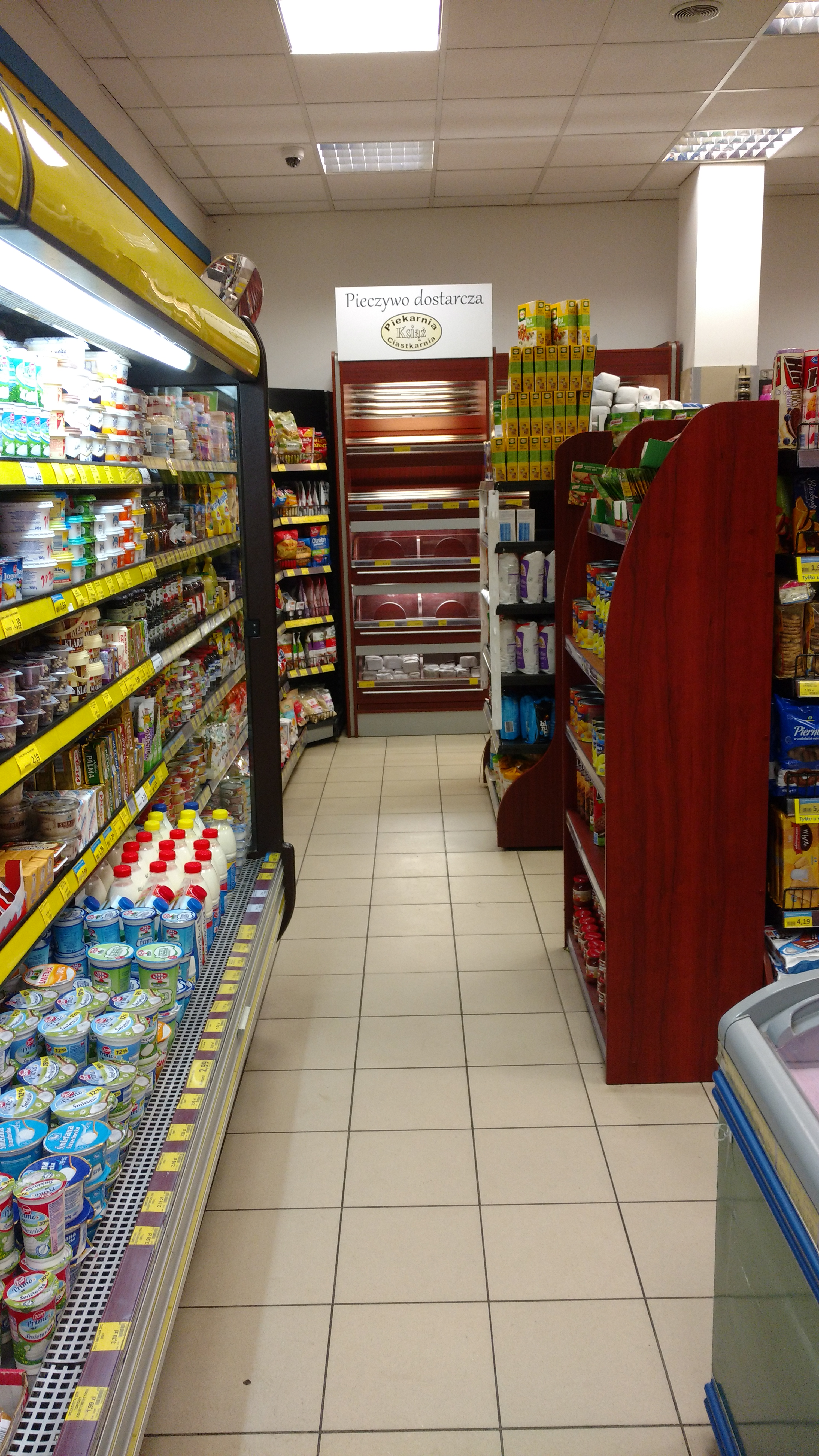 Interior of one of the Lewiatan markets